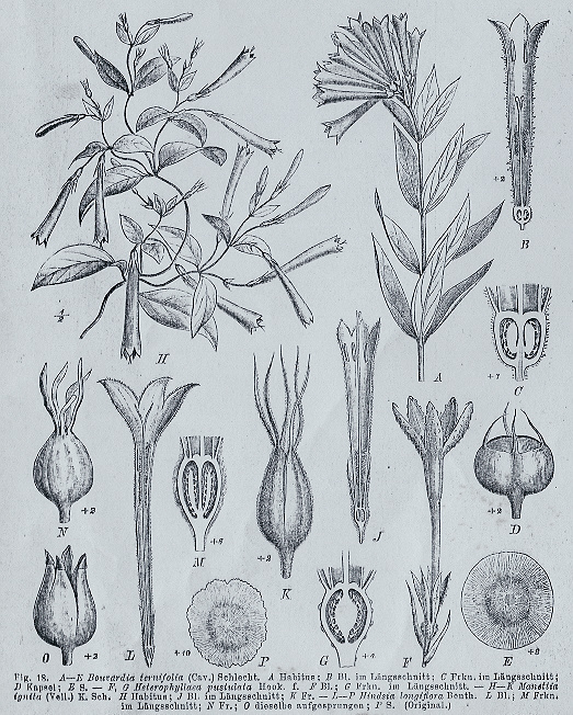 Bouvardia Fig. A = Bouvardia ternifolia [See also species category] Fig. F = Heterophyllaea pustulata [See also species category] Fig. P = Hindsia longiflora [See also species category]